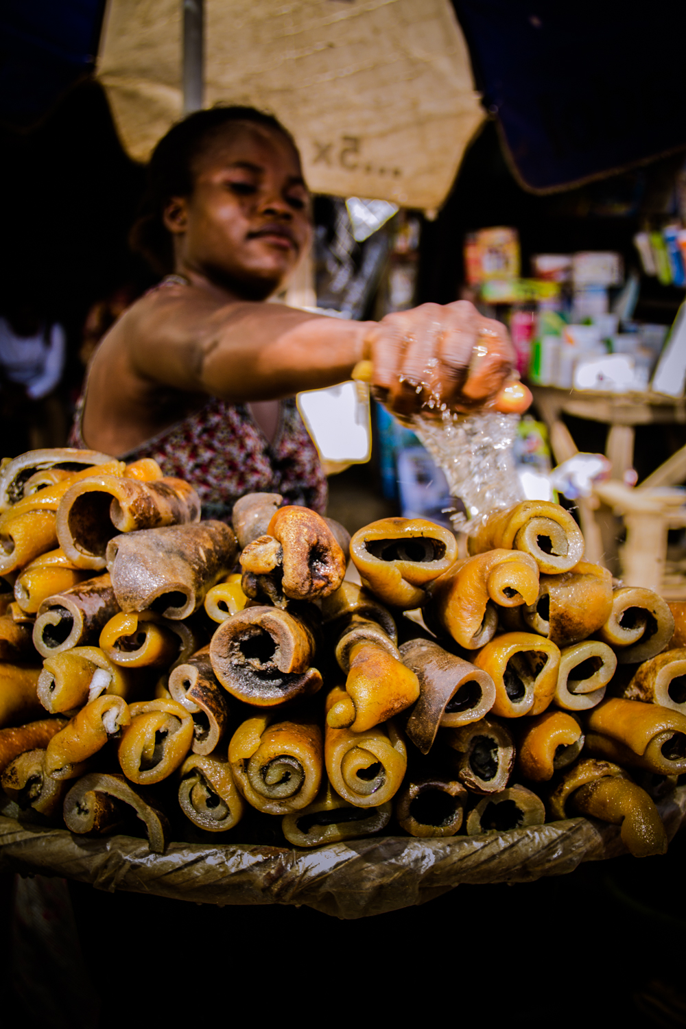 The Ponmo is a type of meat that Nigeria and some other African countries consume a lot . The woman in this photo sells ponmo and it is required she wets it every five minutes to constantly keep it fresh This is an image of "African people at work" from Nigeria